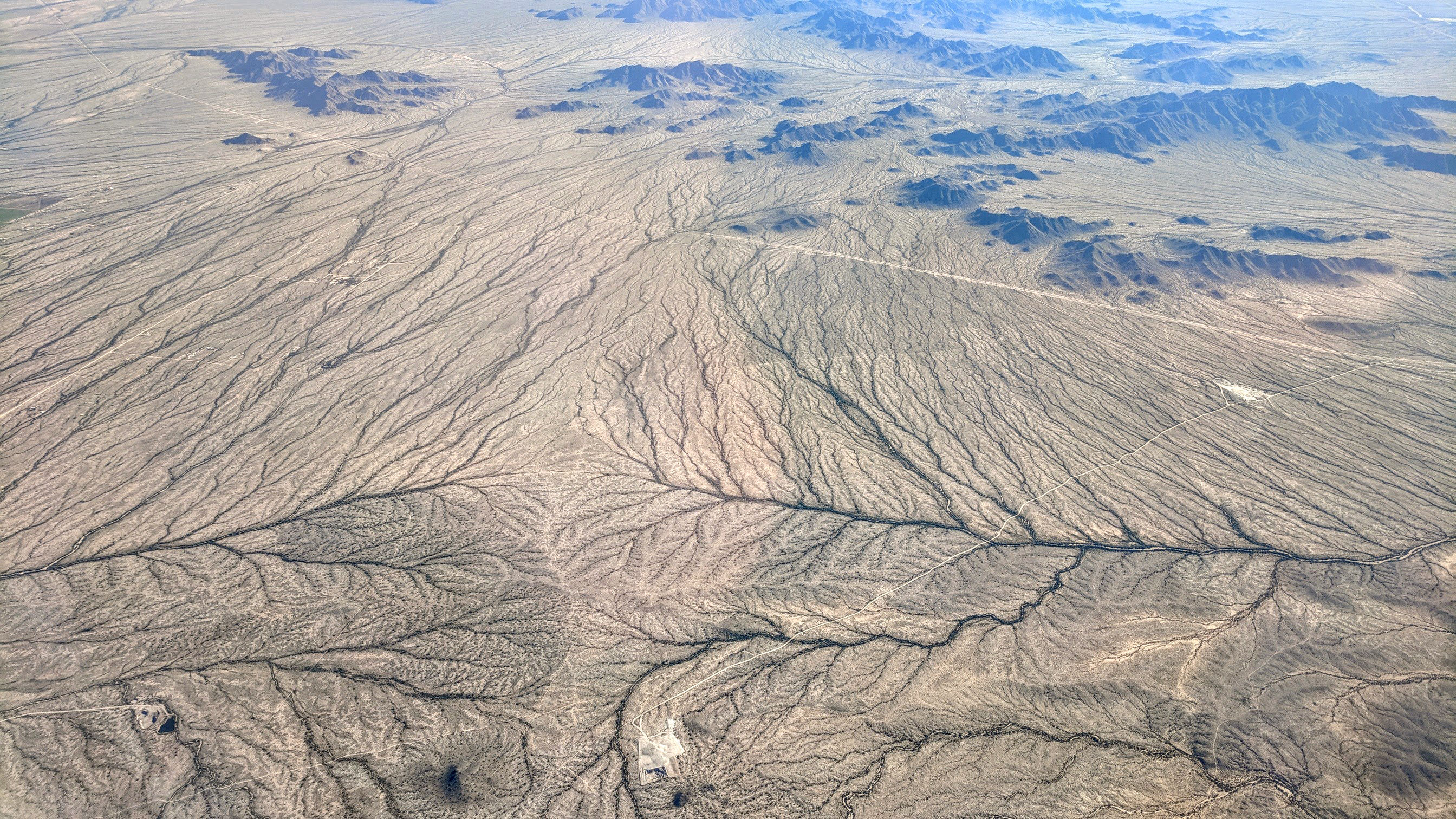 Aerial view looking south, of a minor drainage divide south of Buckeye, Arizona. Both the left and right branches flow to the Gila River.